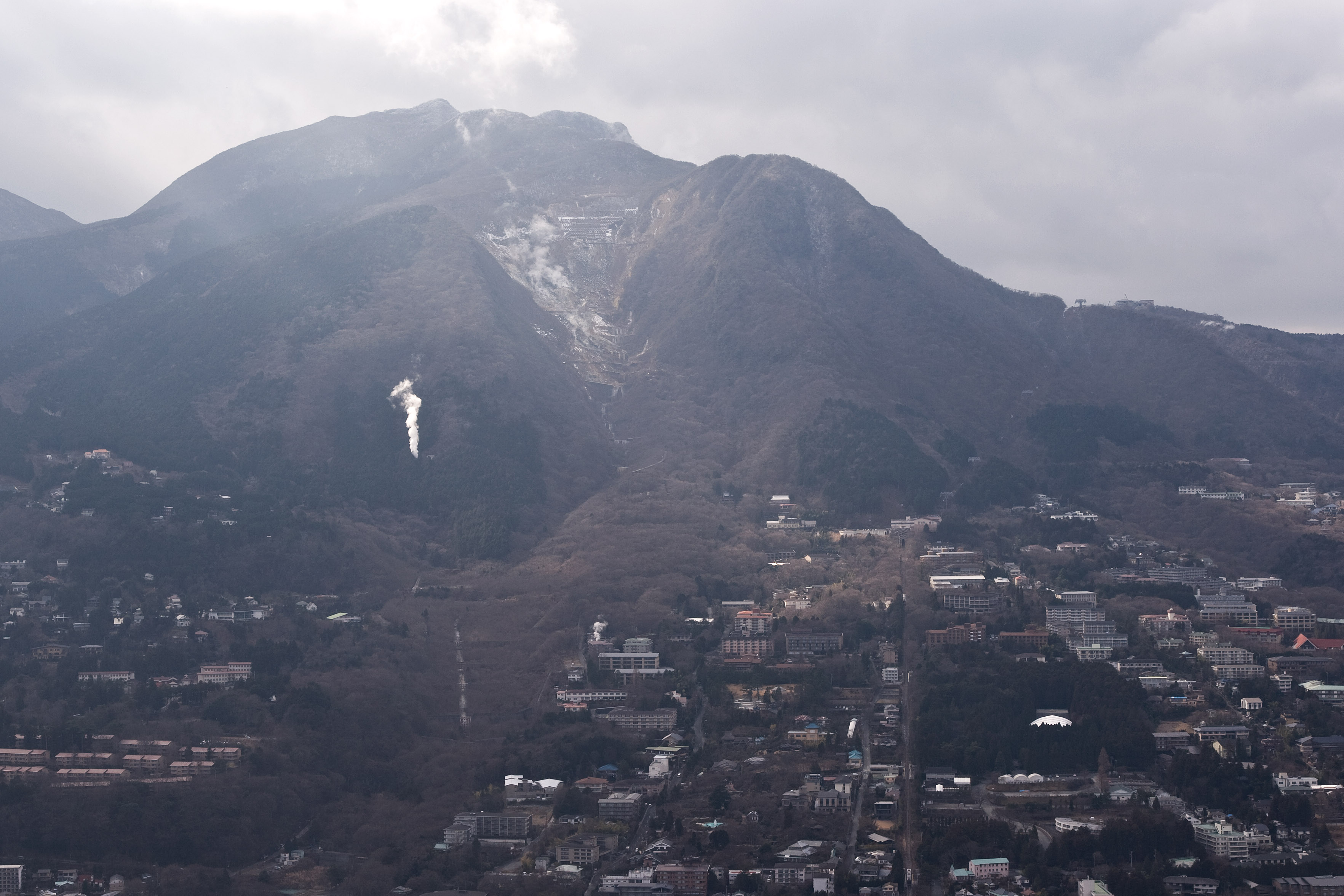 Mt. Kami and Mt.Soun as seen from ENE in Hakone Volcano, Kanagawa Pref., Japan. Shot at Mt. Myojogatake.